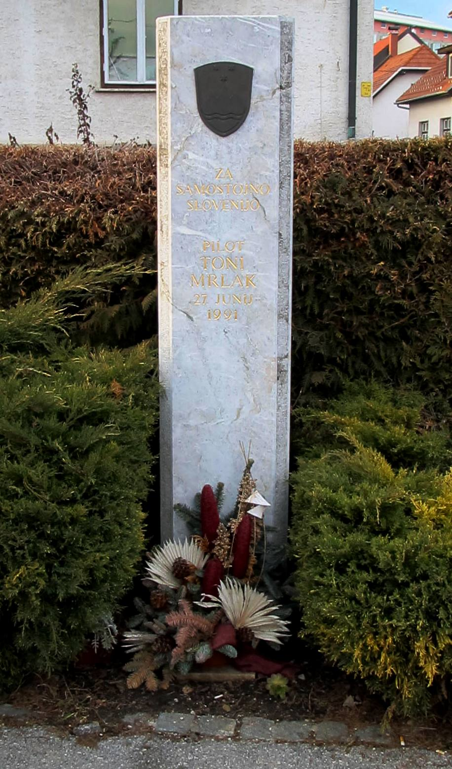 Memorial to Slovenian helicopter pilot Toni Mrlak, shot down on 27 June 1991 in the Ten-Day War, in the Rožna Dolina neighborhood of Ljubljana, Slovenia